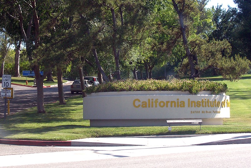 The entrance to the California Institute of the Arts in Valencia.